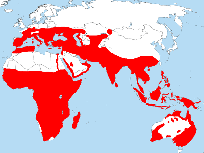 Map of the areas in which bee-eaters Meropidae breed. based on Family Meropidae: Bee-eaters-. Handbook of the Birds of the World Alive. Lynx Edicions (2016). Retrieved on 13 October 2016. (1992) Kingfishers, Bee-eaters, and Rollers, London: Christopher Helm, p. 82–96 ISBN: 978-0-7136-8028-7. Base map is File:A_large_blank_world_map_with_oceans_marked_in_blue.PNG